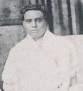 Kumaran Asan (died 1924) with Sree Narayana Guru